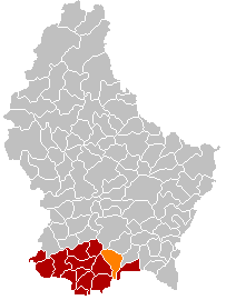 Own edit of Kanton Esch-sur-AlzetteLocatie.png